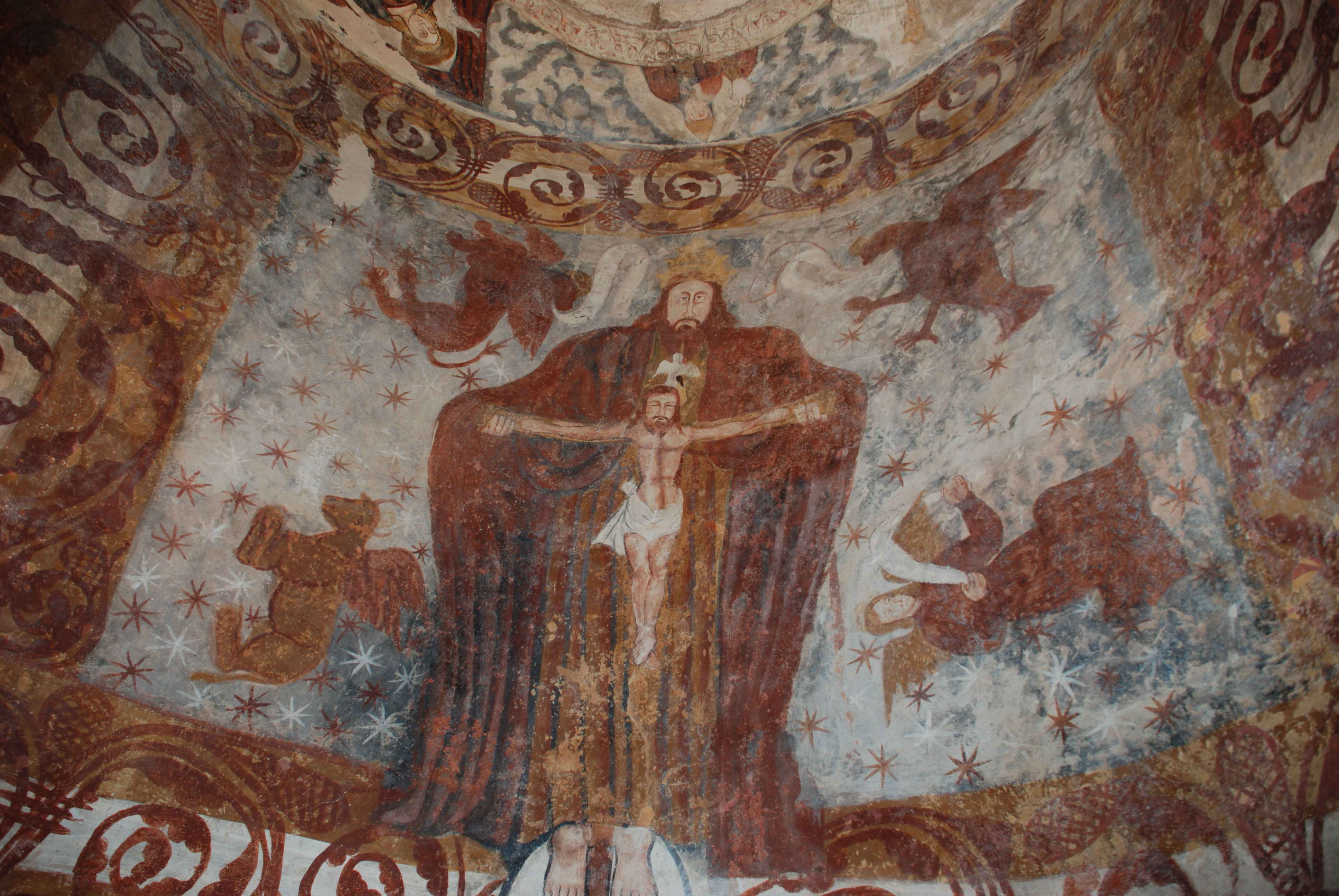 detail of ceiling pictures